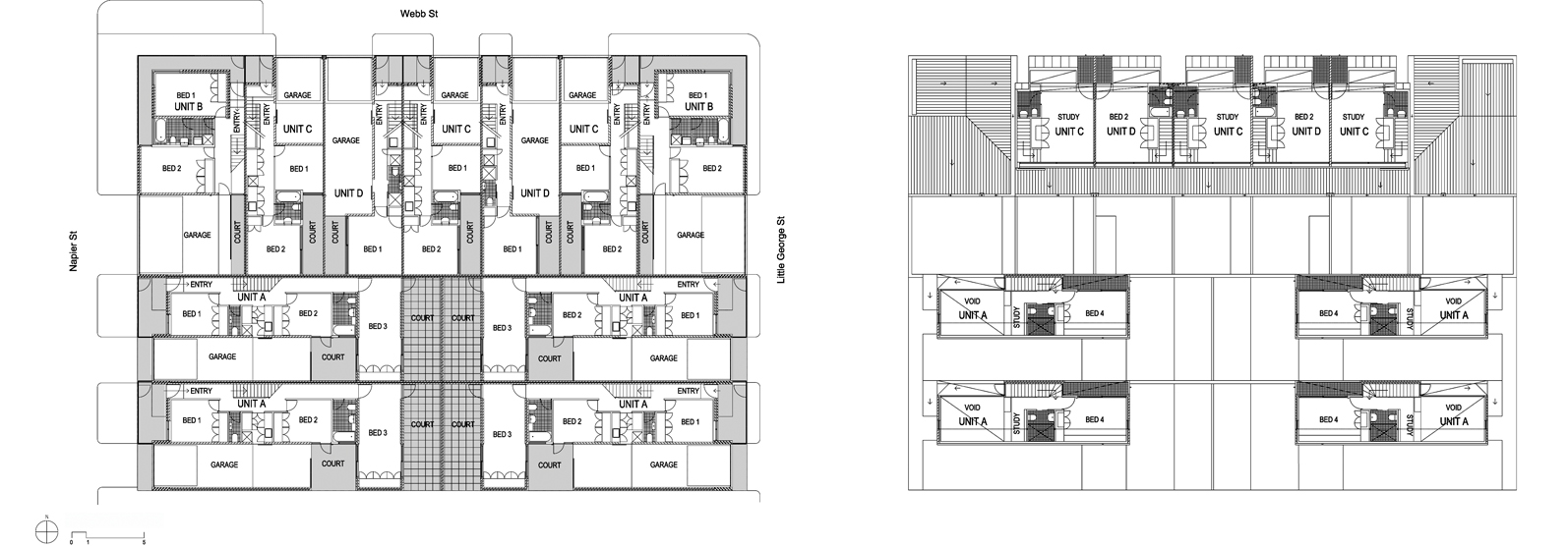 Shaded Plans of Napier Street Housing by Kerstin Thompson Architects